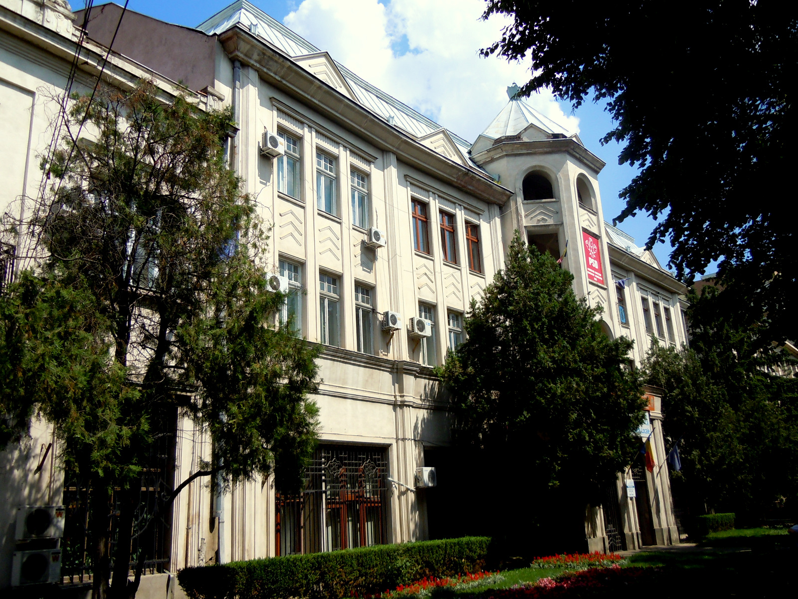 Iaşi , Local Public Finance Headquarters , Iaşi, Romania